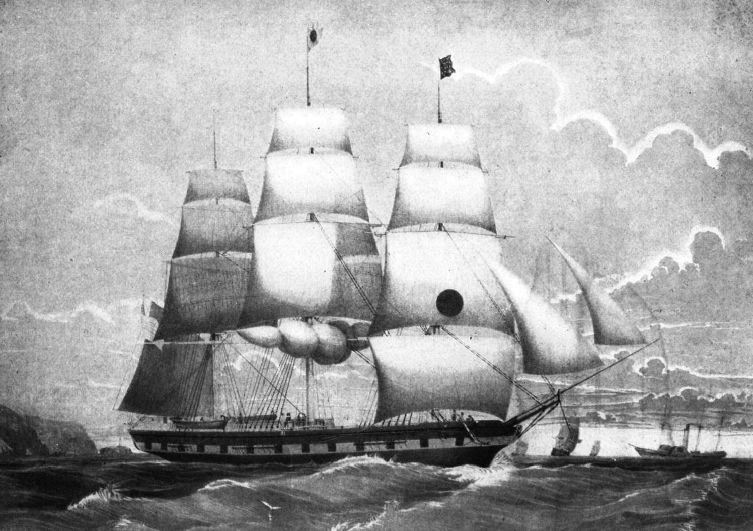 Montezuma, 1070 ton packet ship, Black Ball line